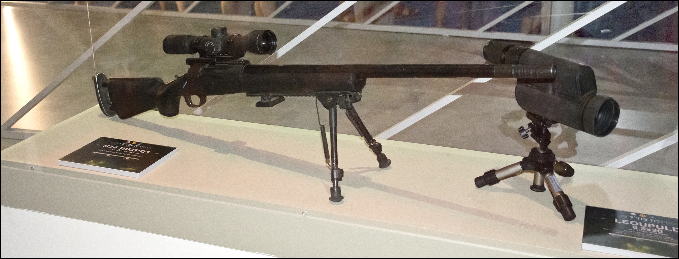 Remington M24 SWS with Leupold Mark 6 scope sight and bipod, and beside it Leupold X6-20 spotter scope, Our IDF 70, Israel